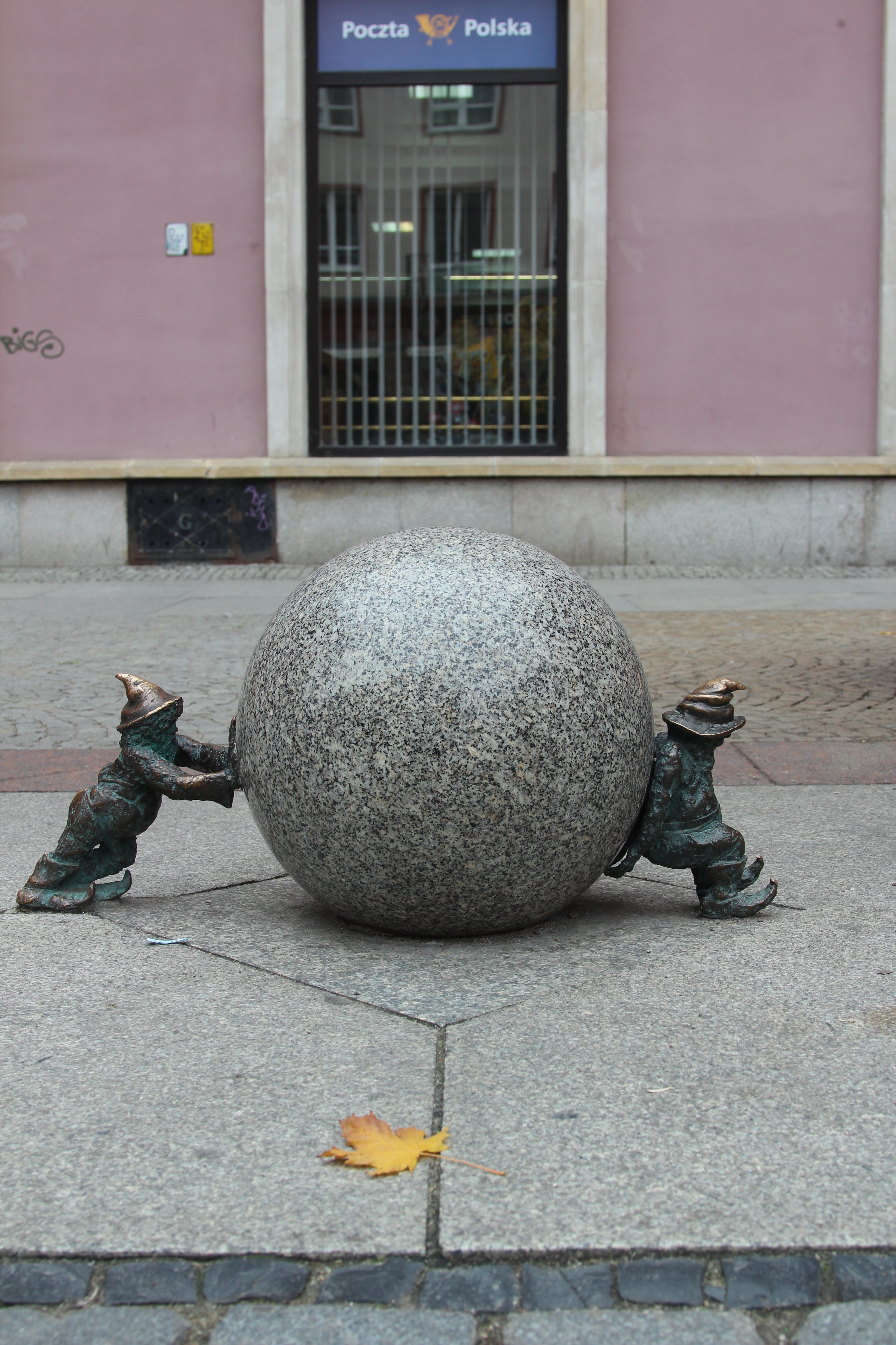 Sisyphers (Syzyfki) dwarves from Świdnicka.